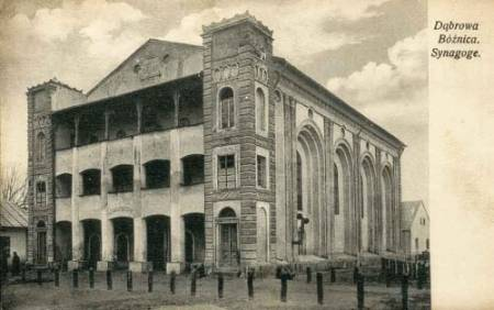 Synagogue in Dąbrowa Tarnowska